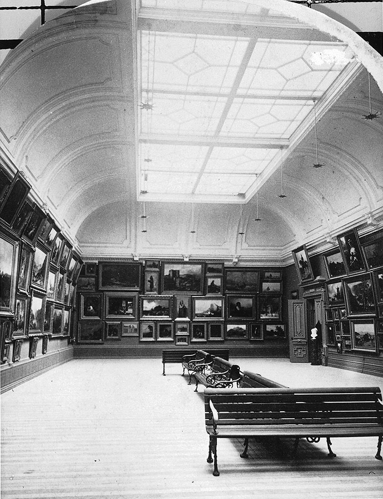 VIEW-1042 Exhibition room, Art Gallery, Montreal, QC, 1879 Wm. Notman & Son 1879, 19th century Notman photographic Archives - McCord Museum VIEW-1042 Salle d'exposition, Art Gallery, Montréal, QC, 1879 Wm. Notman & Son 1879, 19e siècle Archives photographiques Notman - Musée McCord To see the image file on the McCord Museum website, click on the following link: Pour voir la fiche descriptive de cette photographie sur le site Web du Musée McCord, cliquer le lien suivant